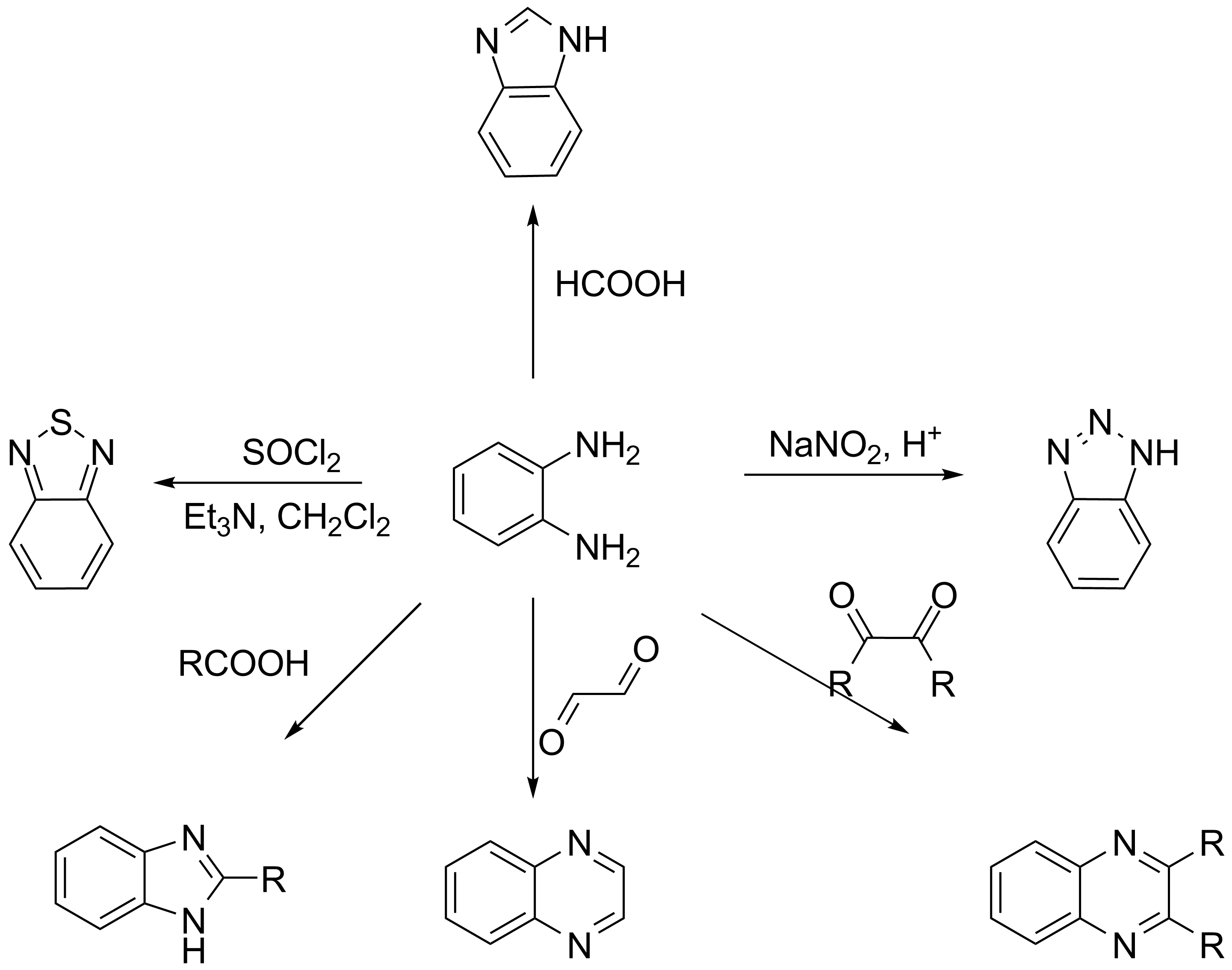 Reactions of 1,2-diaminobenzene